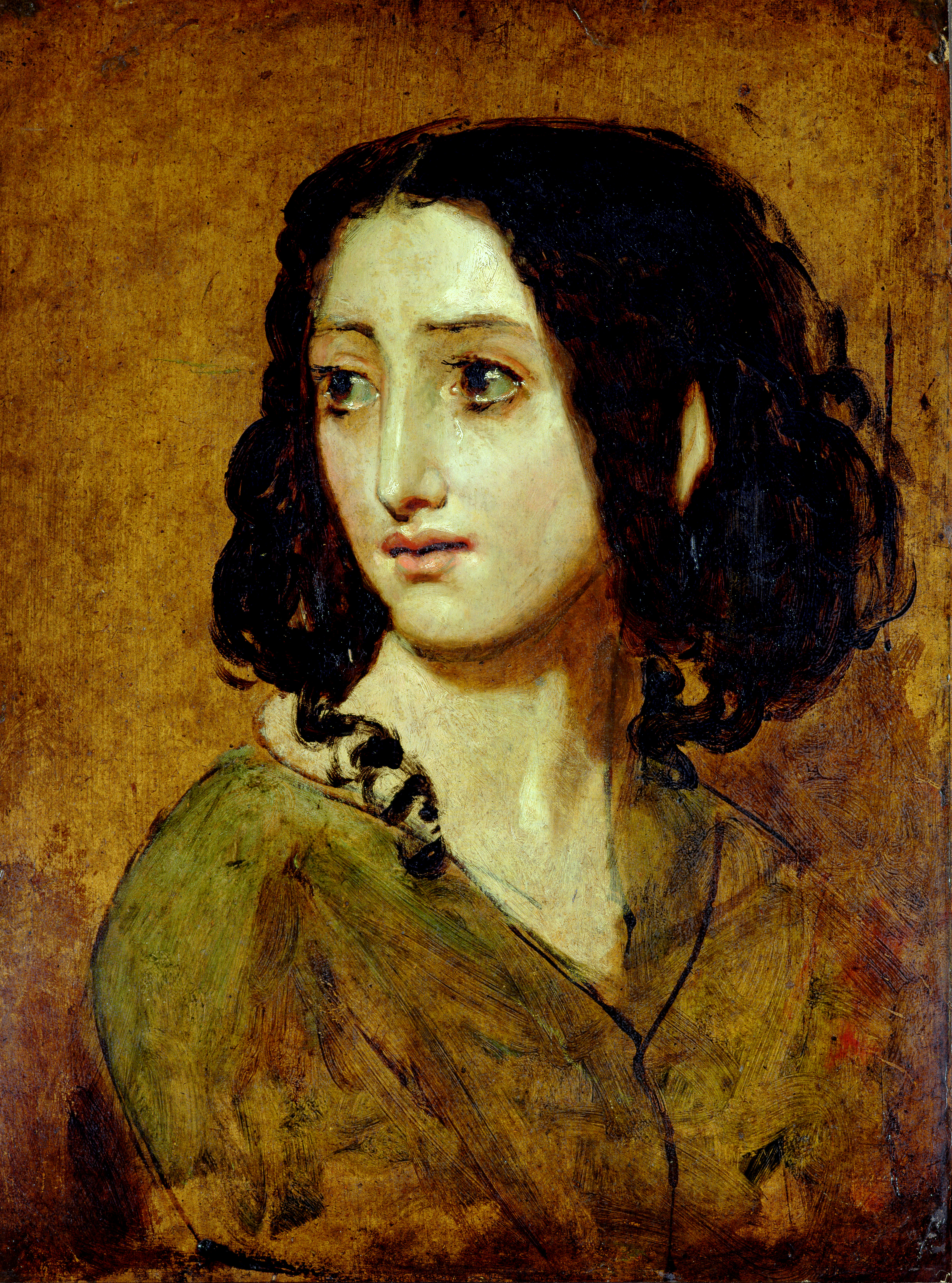 Head and shoulders study; she looks right. She has black hair and wears a green dress. Verso: oil sketch of a crouching female nude.